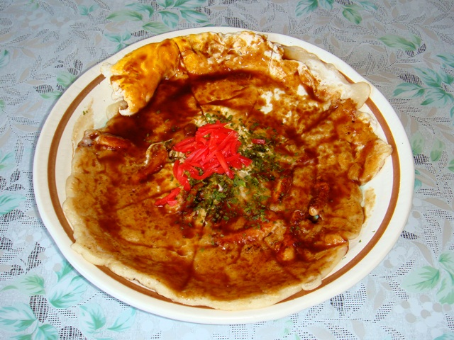 Furai, one of the signature B-grade cuisine in Gyohda.